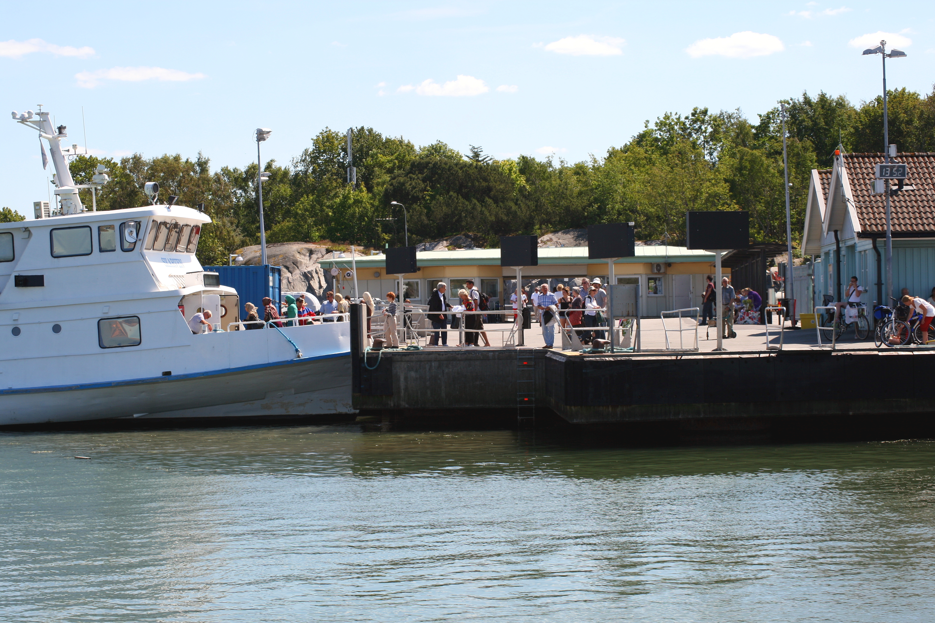 The harbor in Saltholmen, start point for the public archipelago boats in southern Gothenburg.